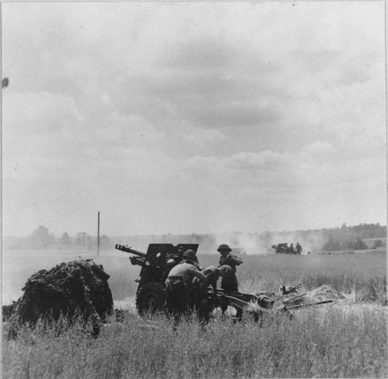 The British Army in the Normandy Campaign 1944 25-pdr field guns in action during an attack on Tilly-sur-Seulles, 17 June 1944.